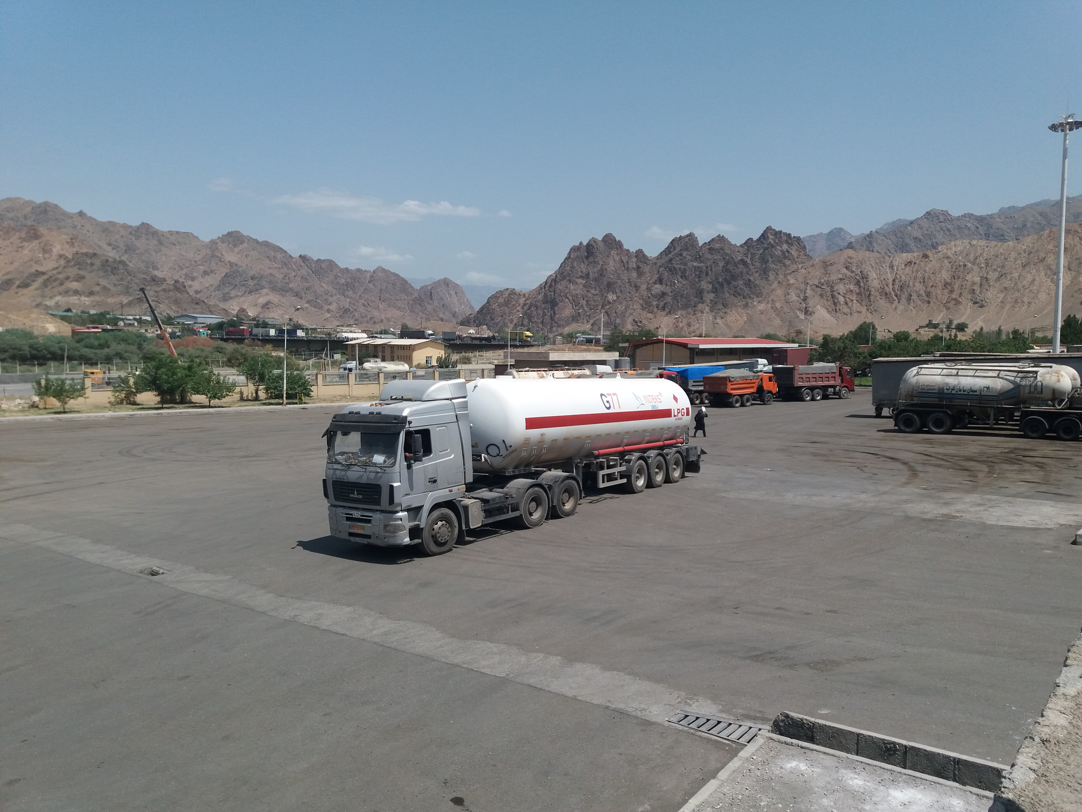 Armenian-Iranian border, Nurduz